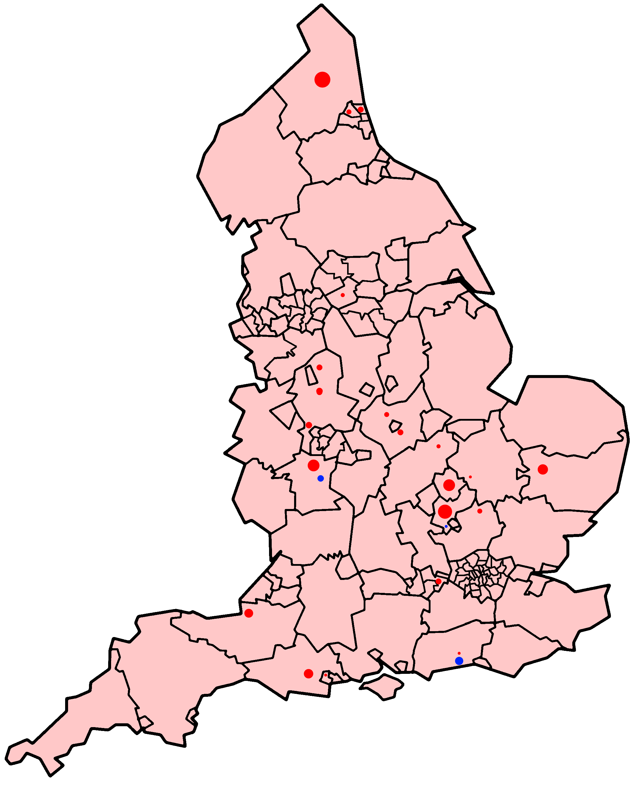 Map showing approximate number and location of middle schools in England, across three-tier authorities.